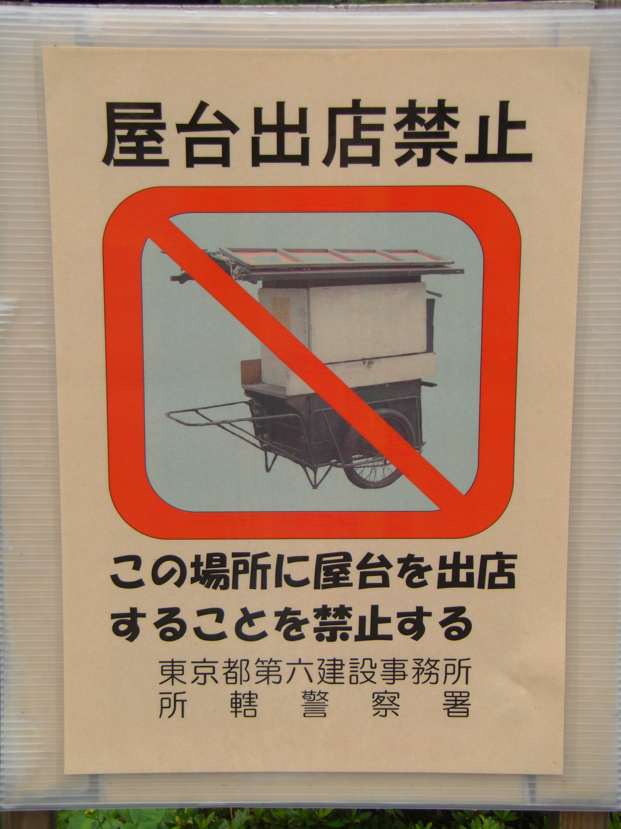 Yatai forbidden sign in front of Suidobashi station in Tokyo.